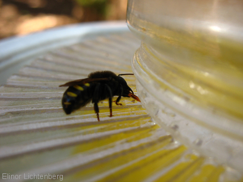 Melipona quadrifasciata (stingless bee) drinking sugar water from a feeder